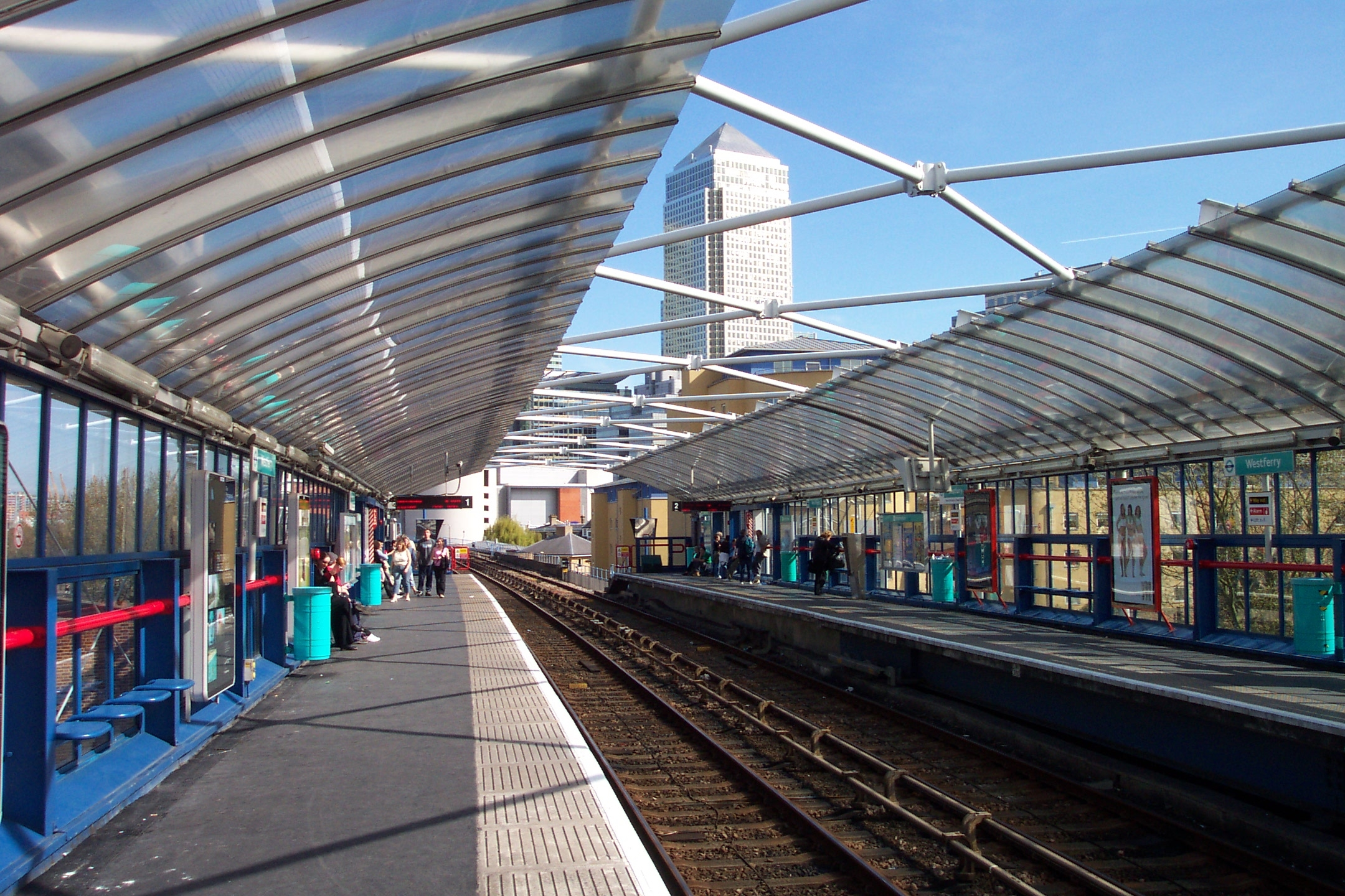 Westferry station on the Docklands Light Railway with the towers of Canary Wharf in the background.